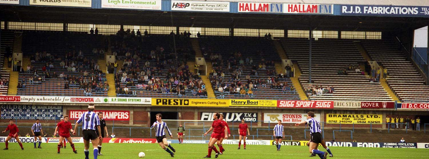 The Leppings Lane Stand at Hillsborough in 1991, near to Parson Cross, Sheffield, Great Britain.